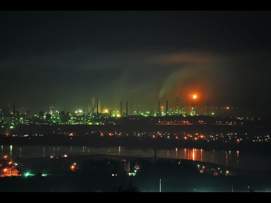 The oil rafinery "Lukoil Neftohim" in Burgas, Bulgaria.